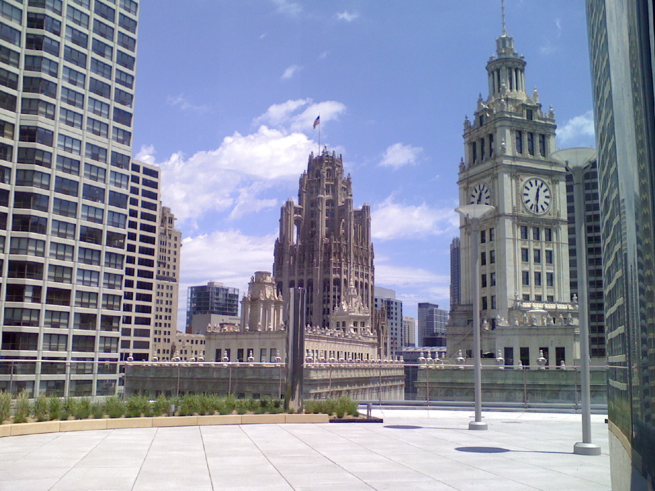 Wrigley Building clock tower and Tribune Tower from Sixteen at Trump International Hotel and Tower (Chicago)